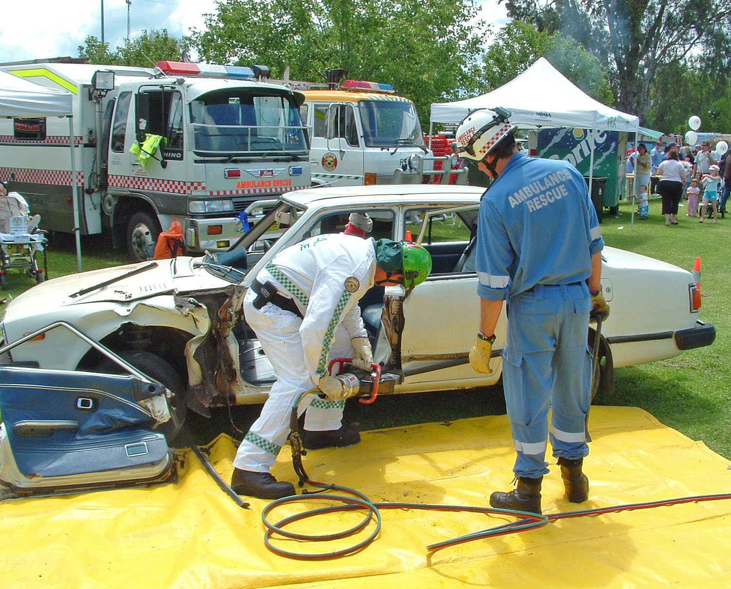 Ambulance Service of New South Wales Rescue and Volunteer Rescue Association Rescue demonstration of the jaws of life.